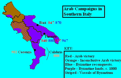 Map showing successful defence of Byzantine Italy against Arab invasions. Inconclusive victory means that the Byzantines held on to it.